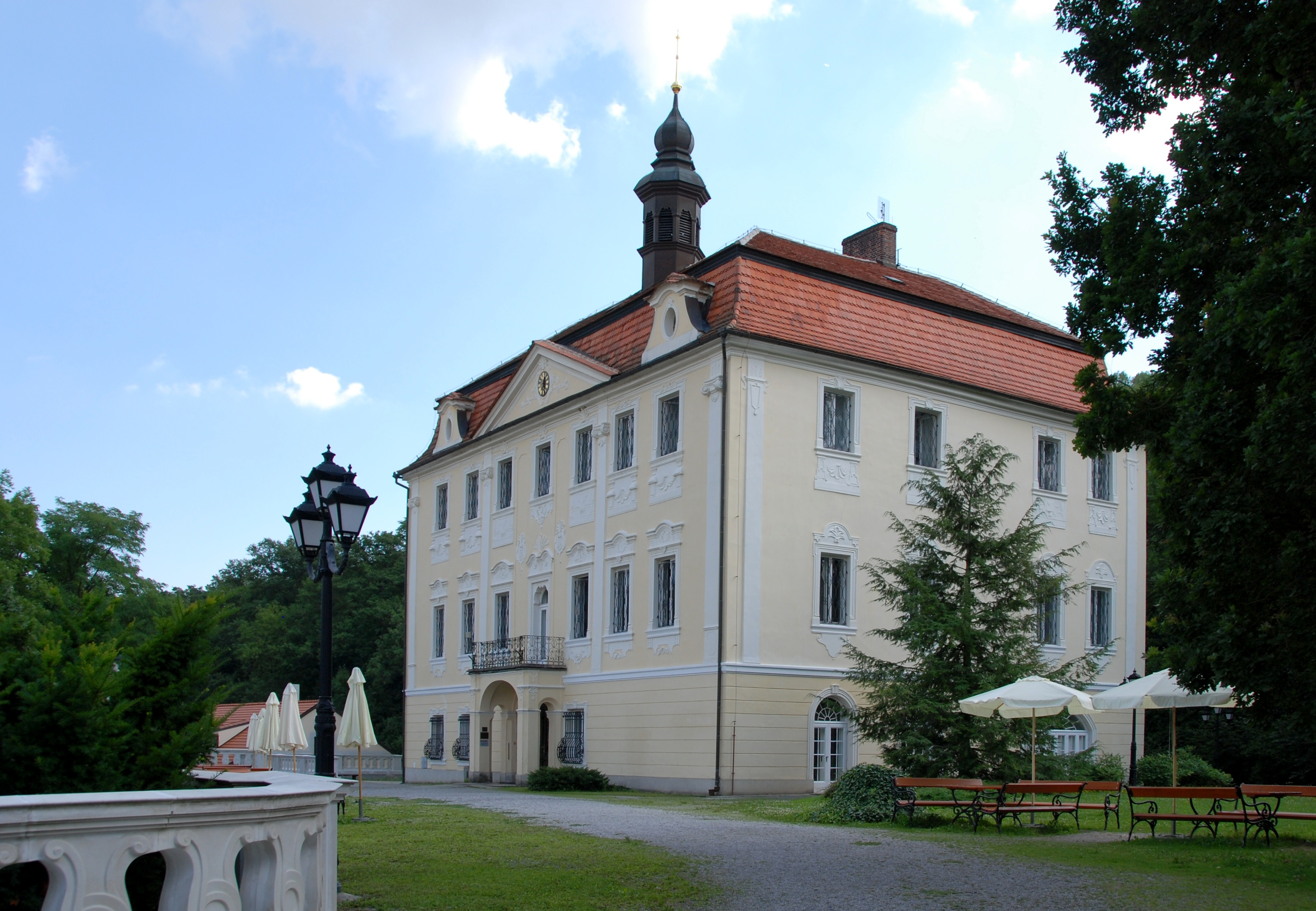 Suchomasty